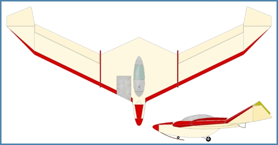 ZAGI MAI 68 Plank Flying Wing